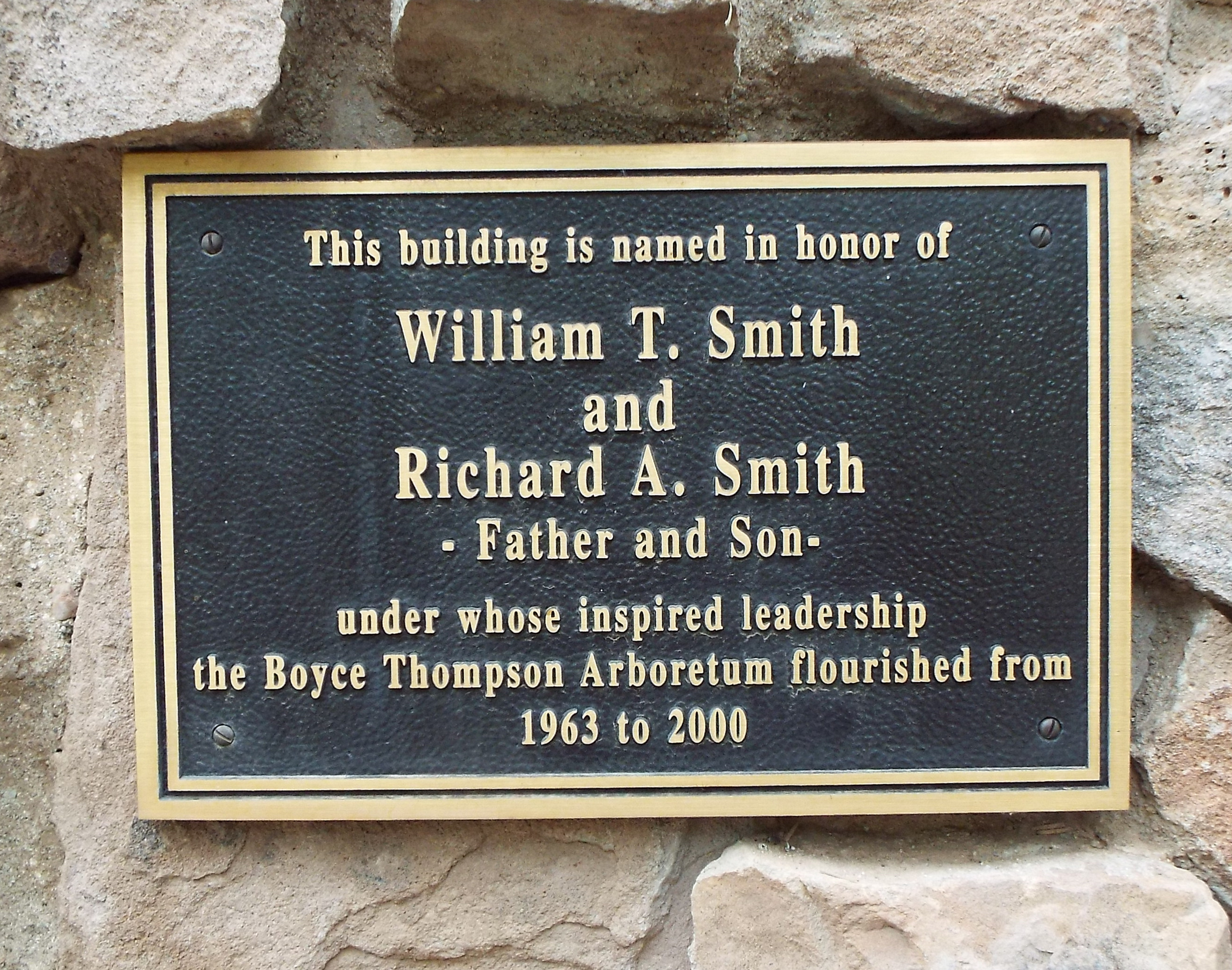 The Smith House Marker, built in 1925 in the Boyce Thompson Arboretum in Superior, Arizona